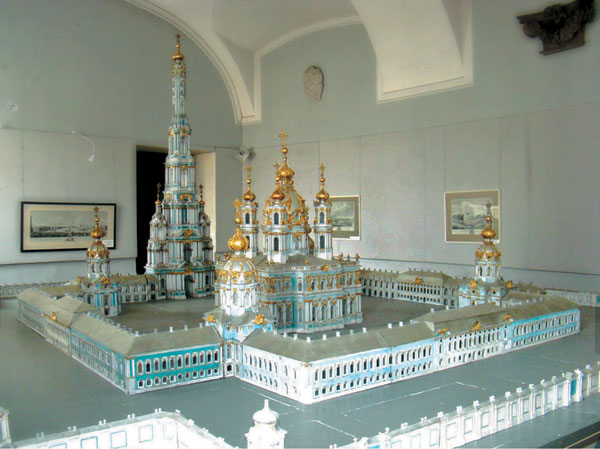 Model of The Smolny Convent of the Resurrection (Voskresensky)